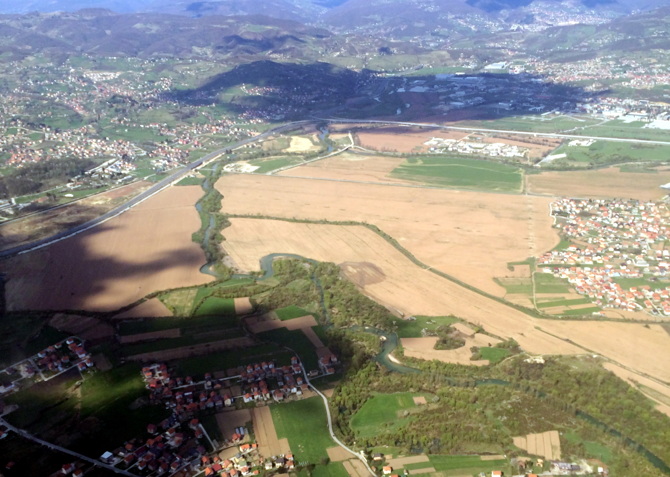 Aerial view over flat parts of the municipalities of Ilidza and Novi Grad, including the river Bosna. Just outside Sarajevo, Bosnia-Hercegovina.